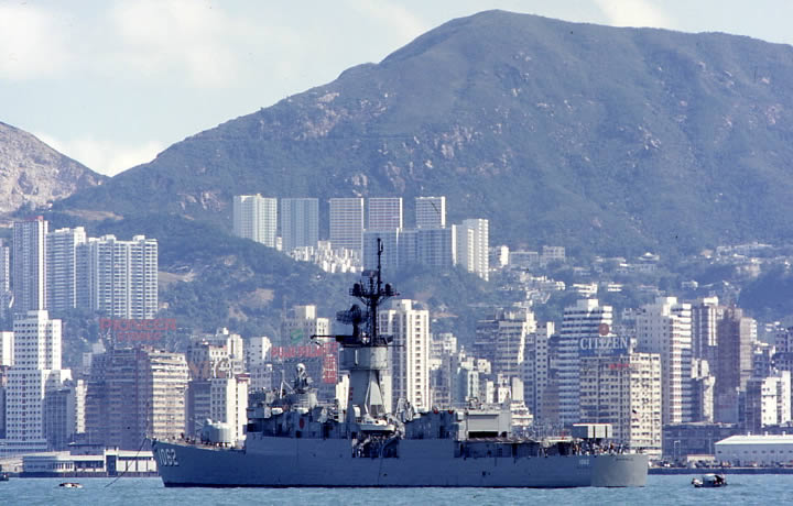 The U.S. Navy ocean escort USS Whipple (DE-1062) in Hong Kong harbour, December 1974.